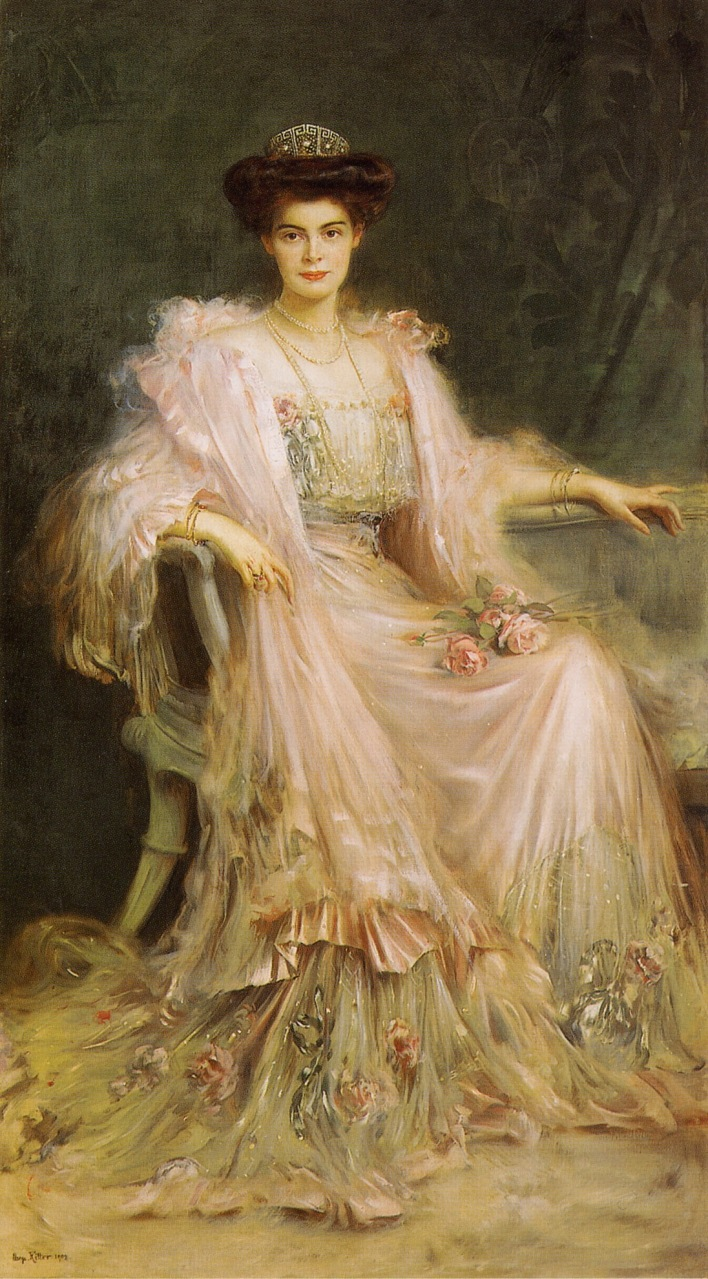 Crown Princess Cecilie of Prussia (1886-1954), née Duchess of Mecklenburg-Schwerin